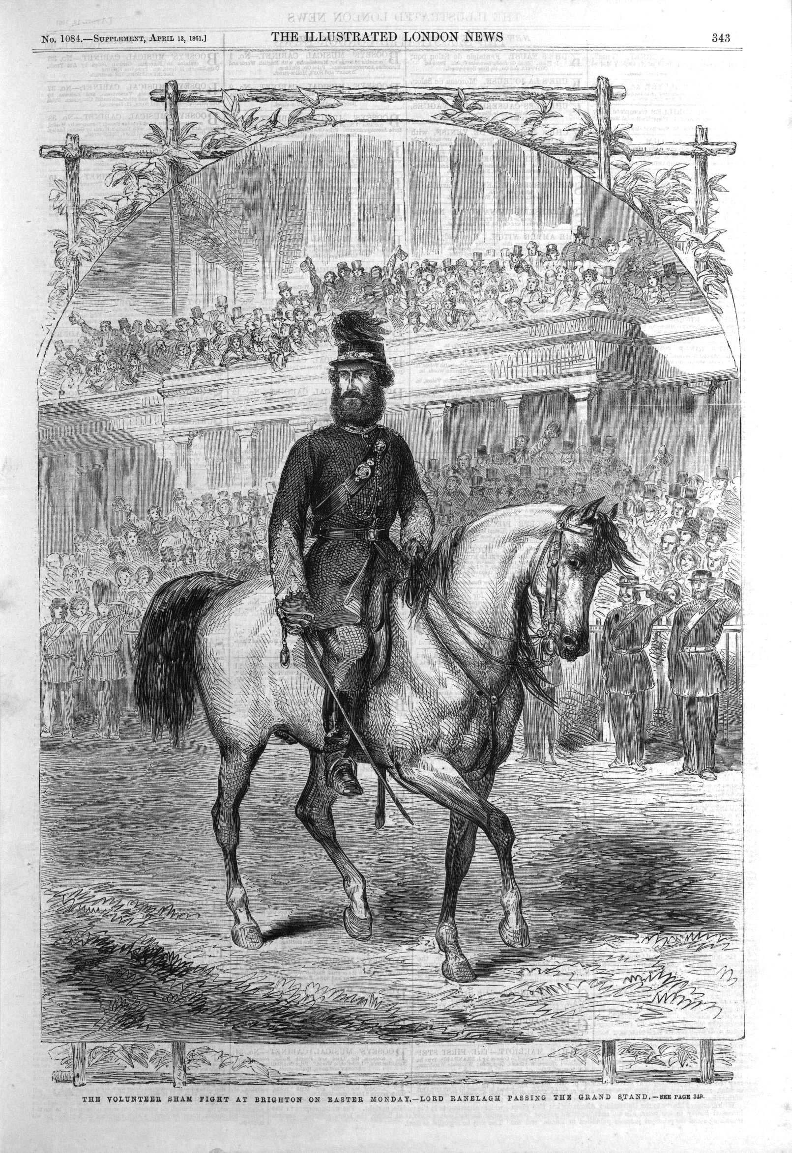 engraving of Lord Ranelagh at the Volunteer gathering in Brighton, 1863.